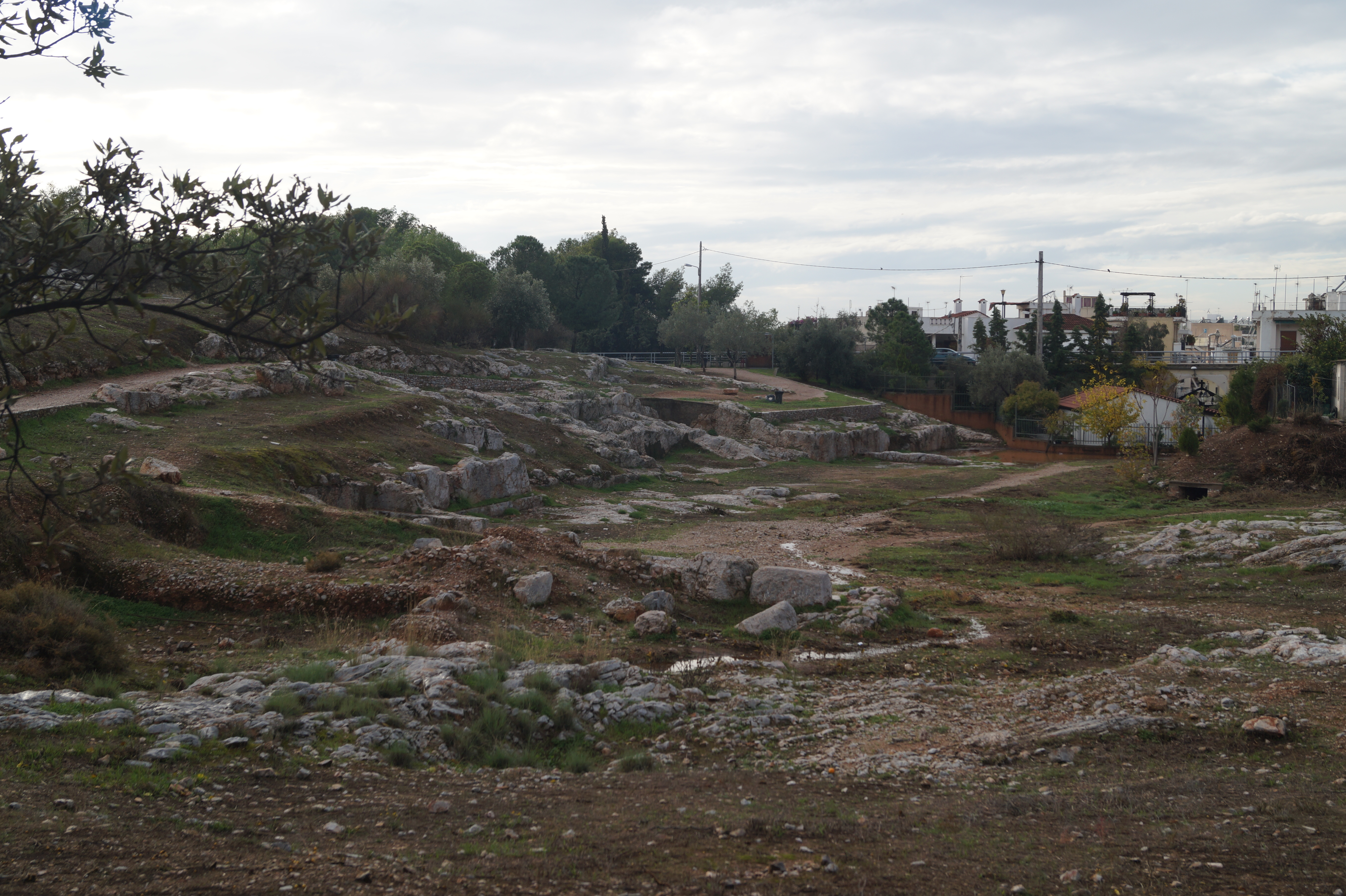 Athens, Greece: Ancient deme of Koile. To the right there is the church of Agios Sotiras of Asyrmatos.